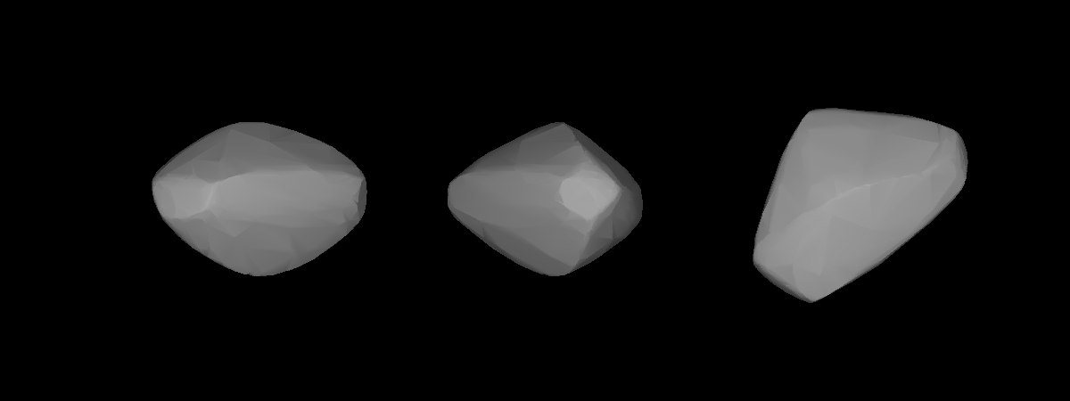 A three-dimensional model of 43 Ariadne that was computed using light curve inversion techniques.